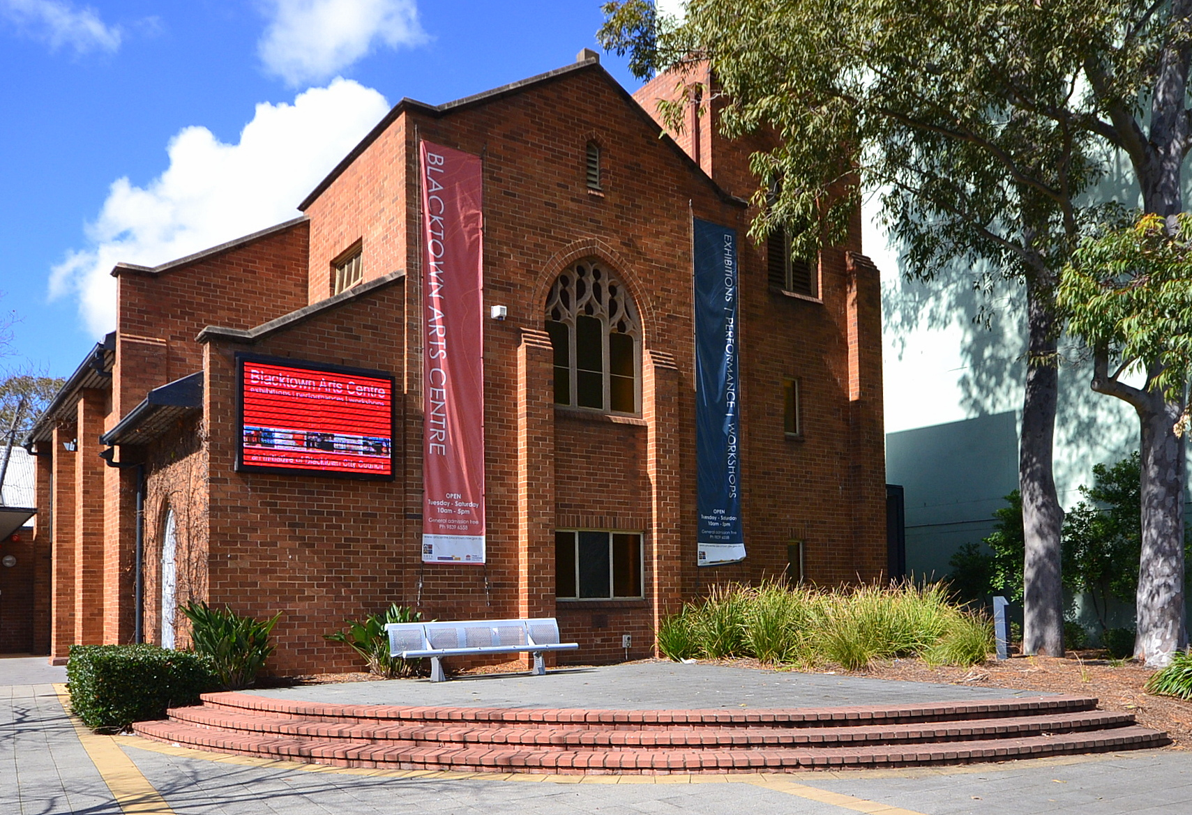 Arts Centre, Blacktown, Sydney